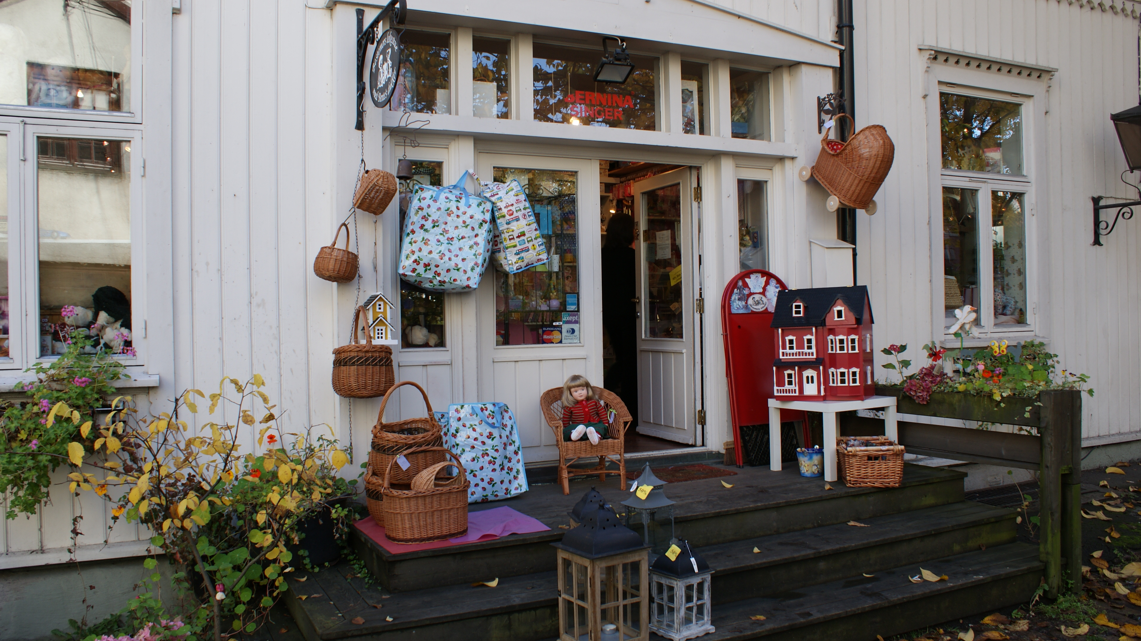 Retro toy store with handmade toys, Homansbyen, St. Hanshaugen, Oslo.